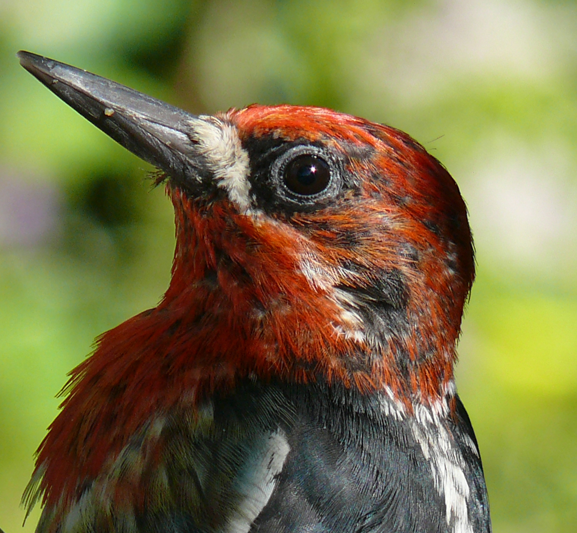 A Red-breasted Sapsucker in Vancouver Island, British Columbia, Canada.